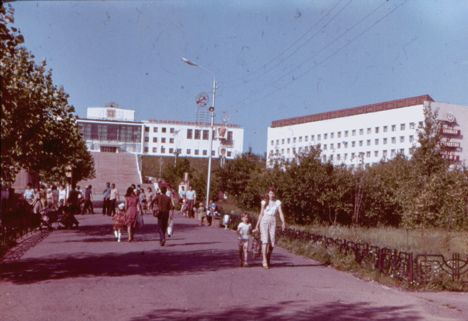 Amursk